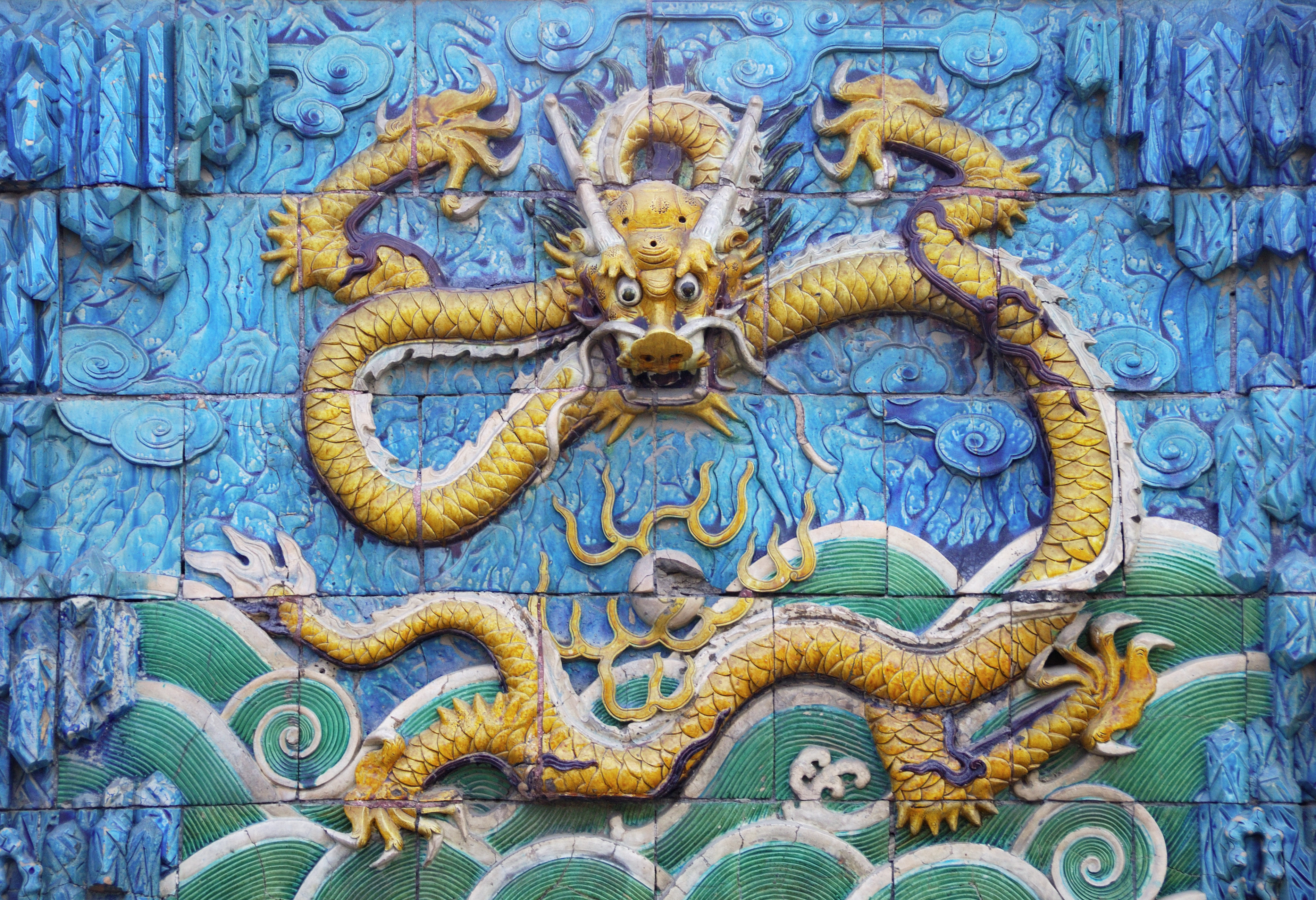 The fifth of nine stone dragons making up the Nine Dragons Screen. From the photographer: Nikon D80 & AF-S DX VR Zoom-NIKKOR 18-200mm f/3.5-5.6G IF-ED